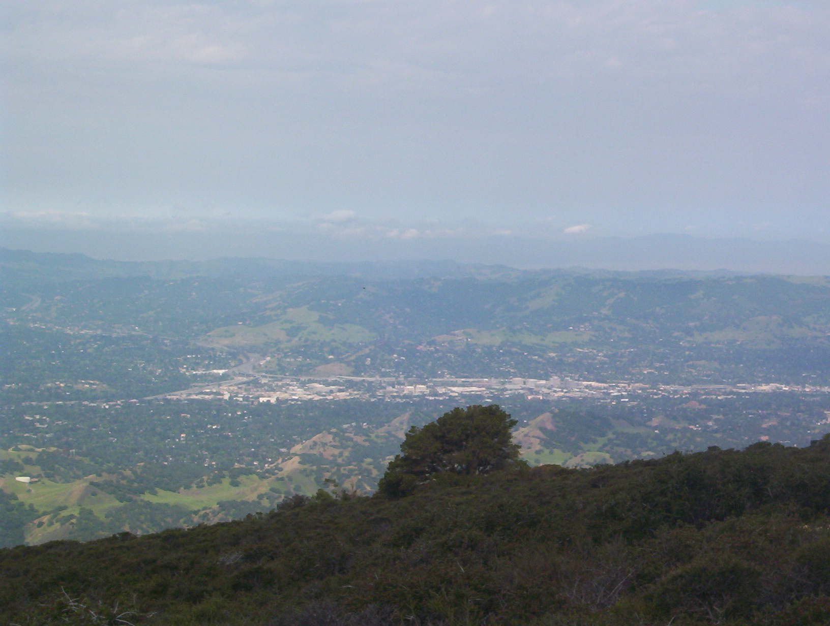 Picture shows the I-680/24 interchange. Walnut Creek, California is in the middle, Alamo to the south, and Pleasant Hill to the north.